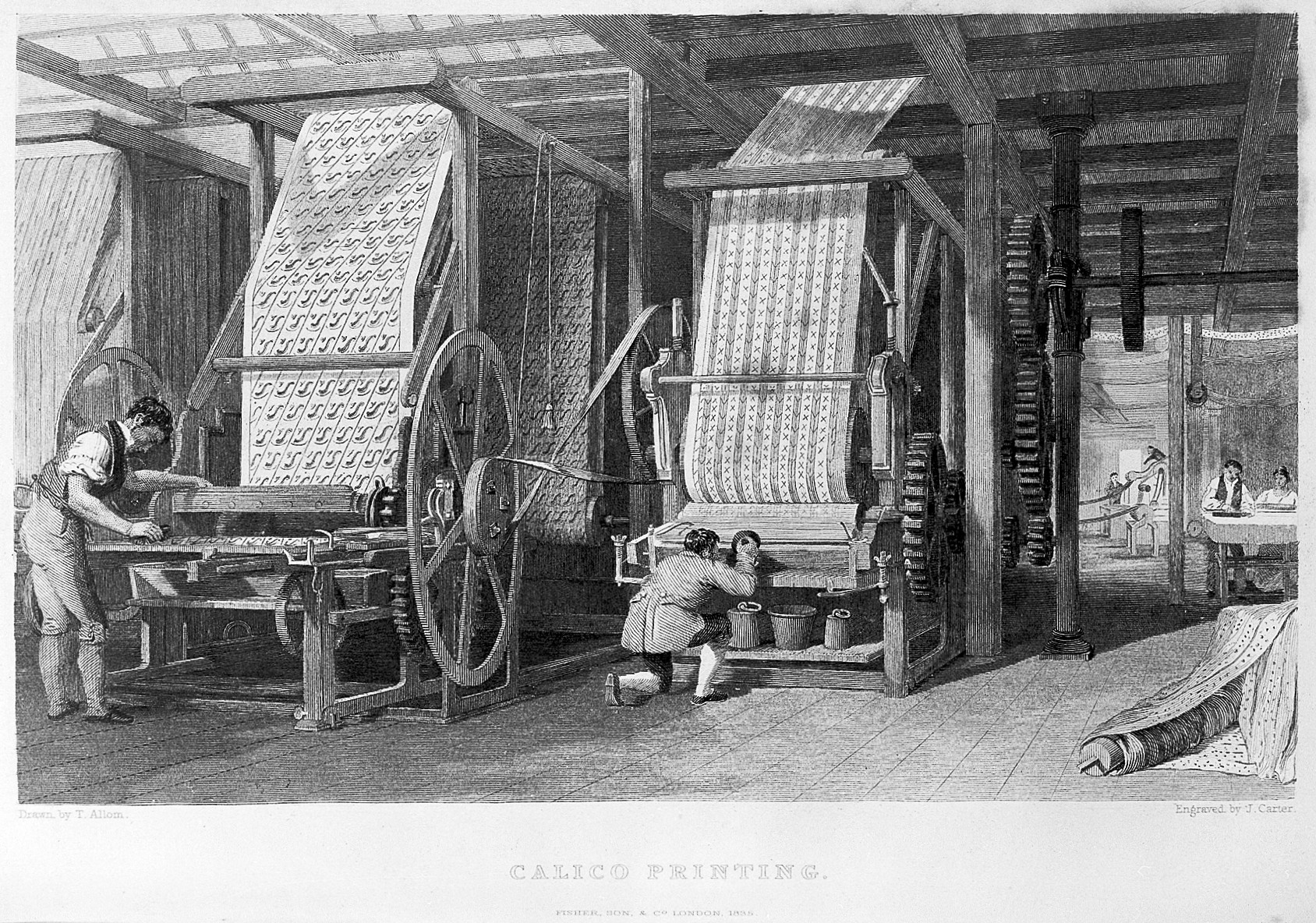 Calico printing. Rare Books Keywords: industrial conditions: cotton manufacture.; Public Health